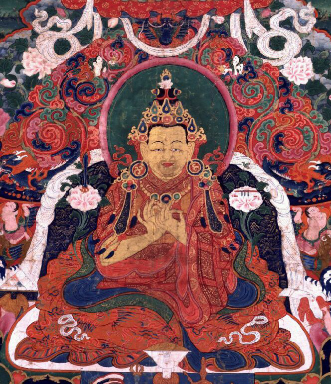 Gotsangpa Gonpo Dorje (b.1189 - d.1258) Drukpa Kagyu teacher